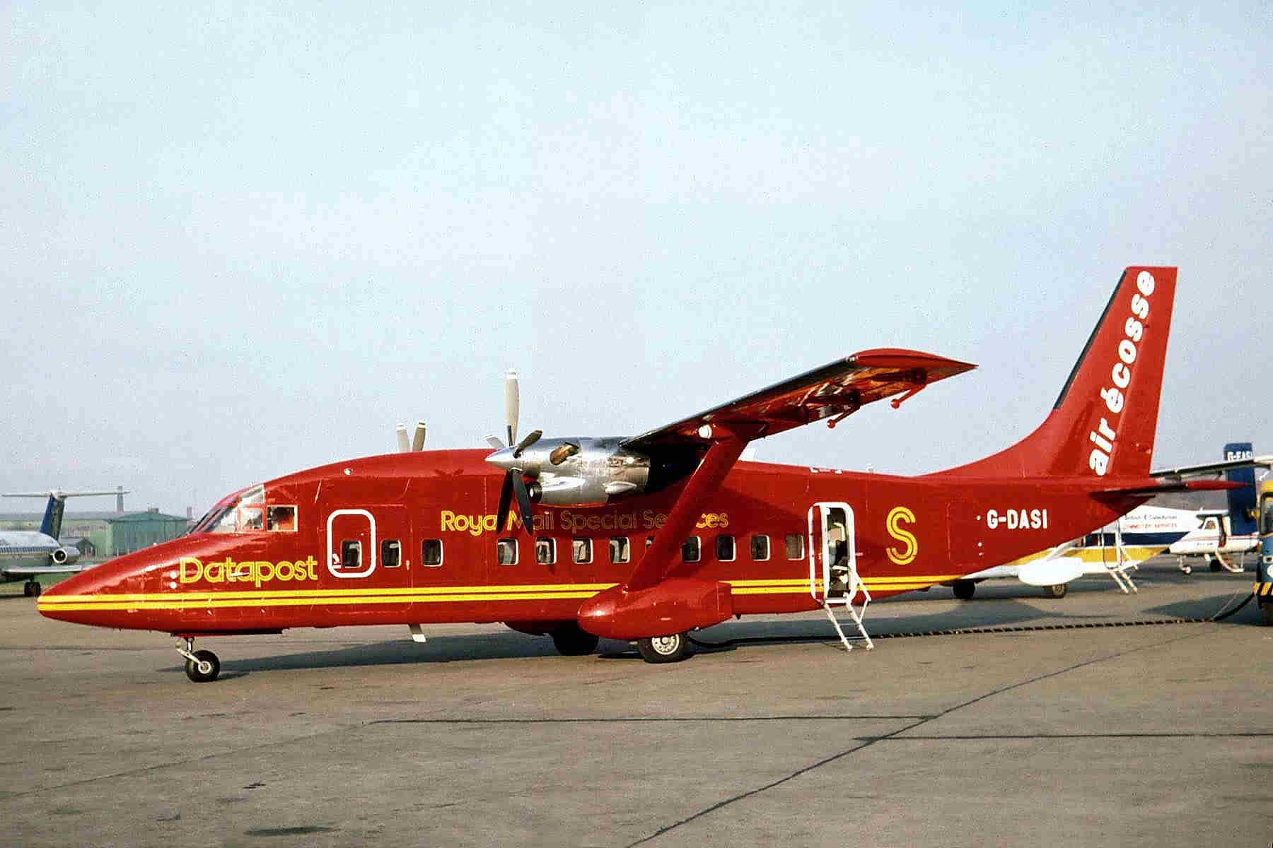 'Royal Mail Datapost' special c/scheme